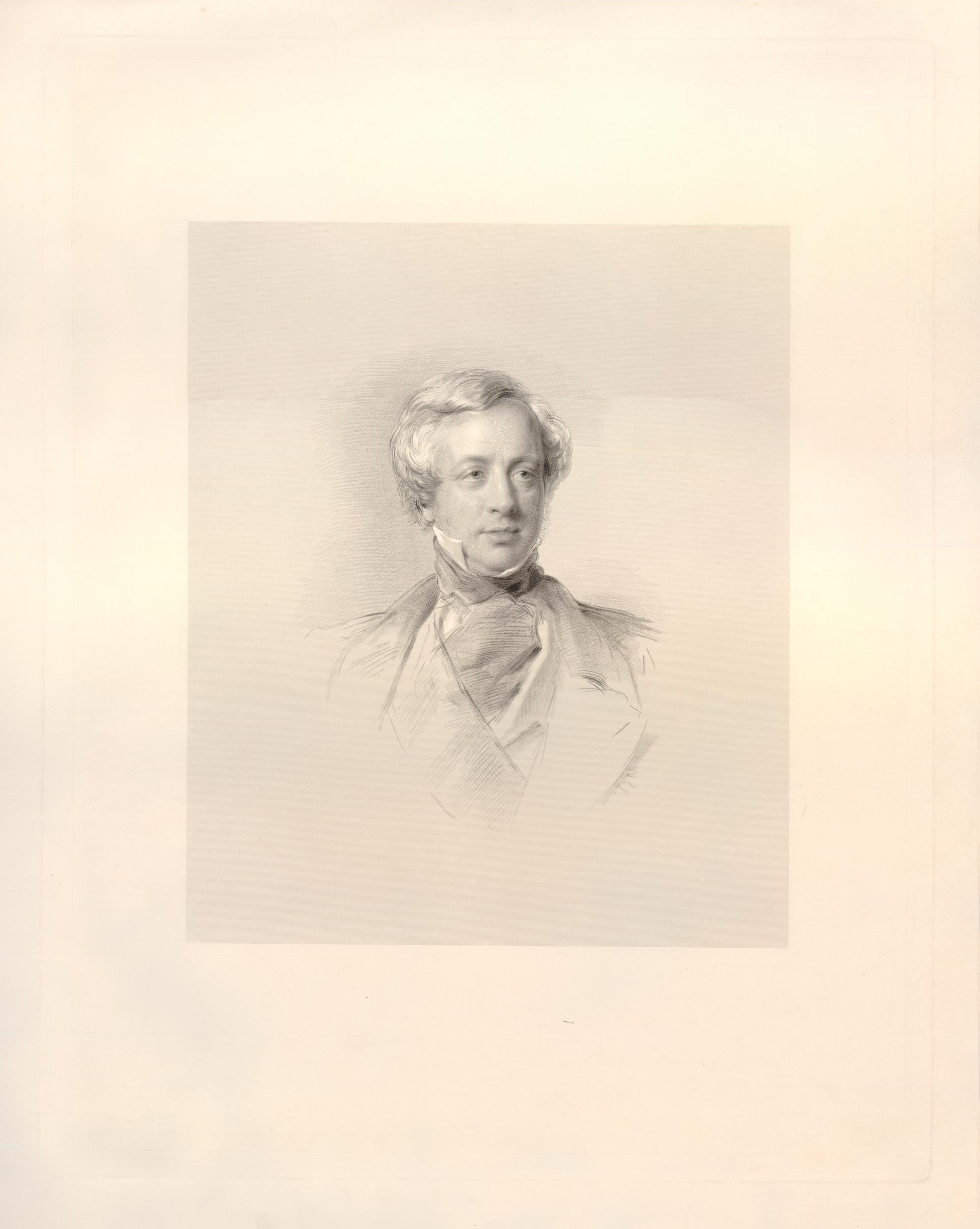 Portrait of John Frederick Campbell, 1st Earl Cawdor, bust-length to front, with head turned to look to right; wearing open coat, sash, waistcoat and necktie; after a drawing by Swinton. Lithograph on chine collé